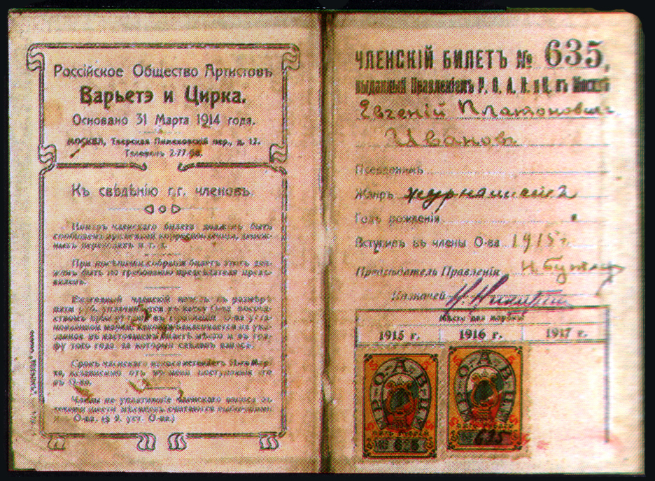 Trade-union stamps of the Russian society of actors of a variety show and circus on the trade-union card, 1914